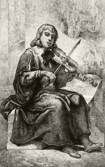 Italian luthier Nicolò Amati (1596-1684) by Jacques-Joseph Lecurieux (1801-1870s).